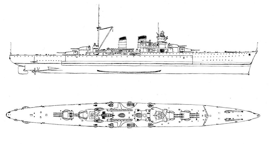 Duca degli Abruzzi class cruiser. Scanned drawing.